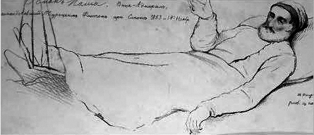 Ottoman Patrona (Vice Admiral) Osman Pasha as Prisoner of War in Russian Sevastopol, pencil drawing by Ivan Aivazovsky